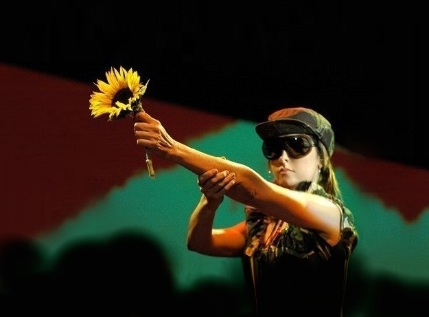 Brazilian artist Fernanda Abreu live in Na Paz Tour, 2004.